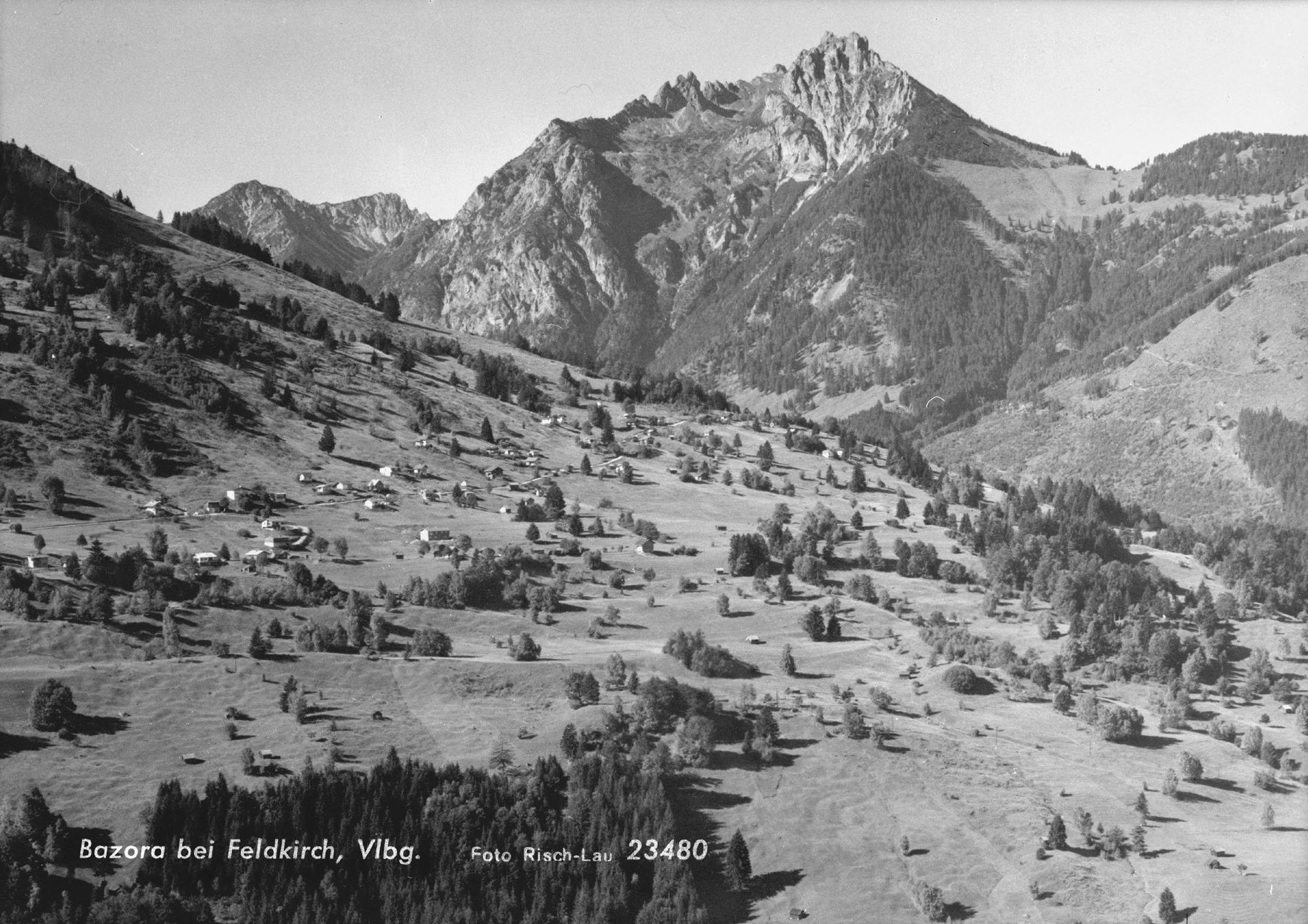 Hamlet Bazora in Frastanz near Feldkirch (Vorarlberg, Austria). Collection: Risch-Lau, 1966. The following can be seen: Bazora, Saminatal, Hehlawangspitze, Alpspitzsattel, Alpspitze, Garsellasattel, Garsella Alpe, Garsellatürme, Garsella Kopf, Drei-Schwestern, Saroyasattel, Sattelköpfle, Hinterälpele, Rhaetikon, western Rhaetikon.